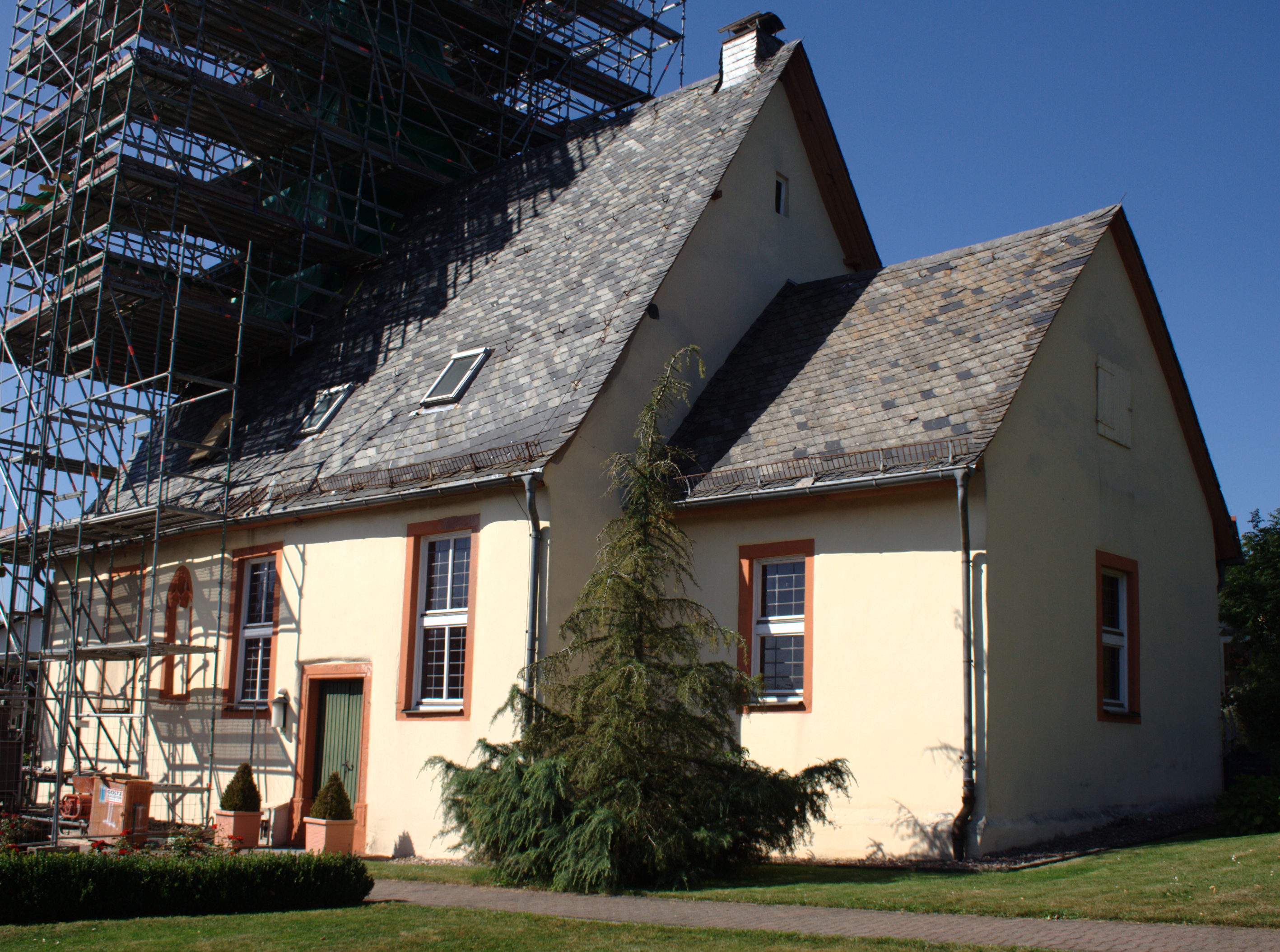 Church with tubular steel scaffolding in Ober-Seemen Gedern / Hesse / GermanyThis is a photograph of an architectural monument.